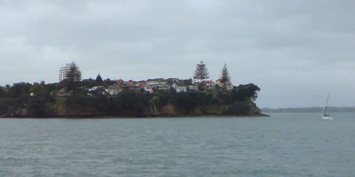 Stanley Point, the westernmost part of Stanley Bay, a small suburb of North Shore City, Auckland, New Zealand.